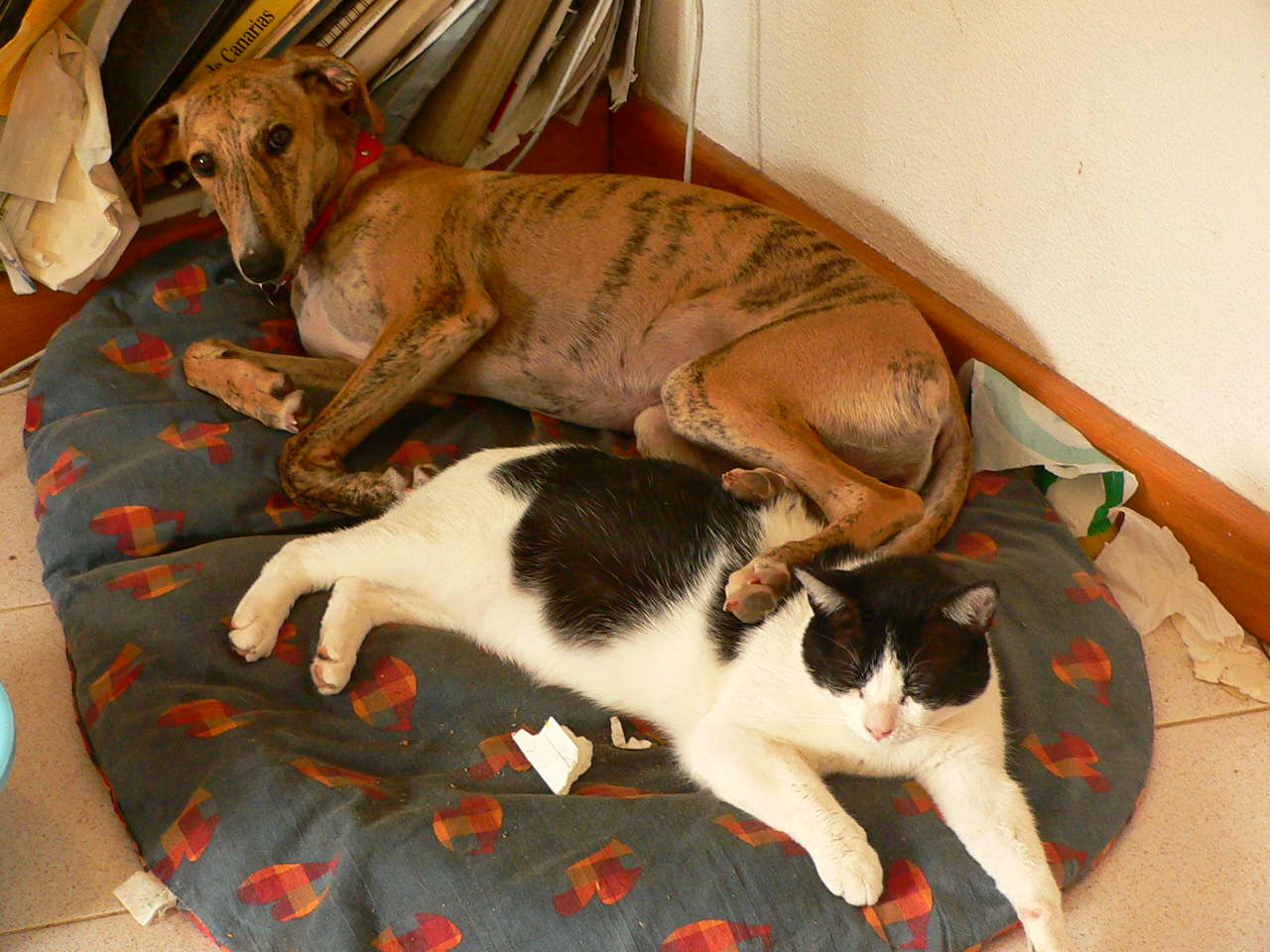 A brindle Greyhound and a black-and-white cat.